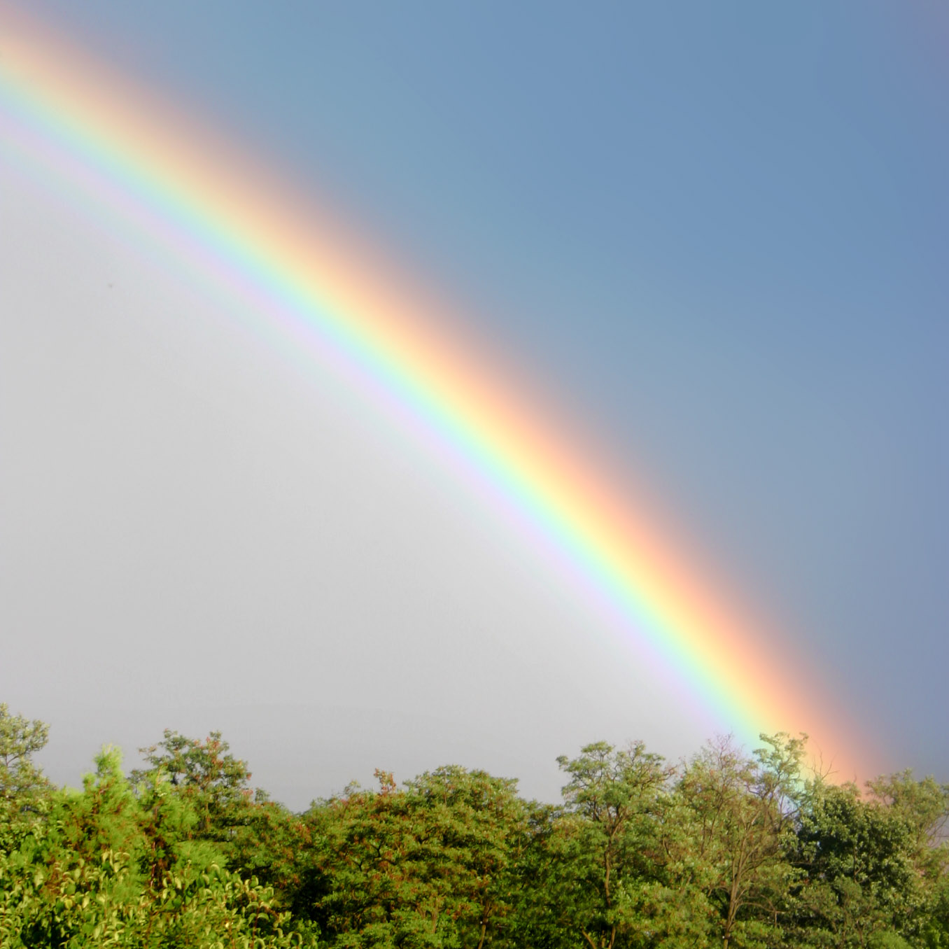 Rainbow from Budapest